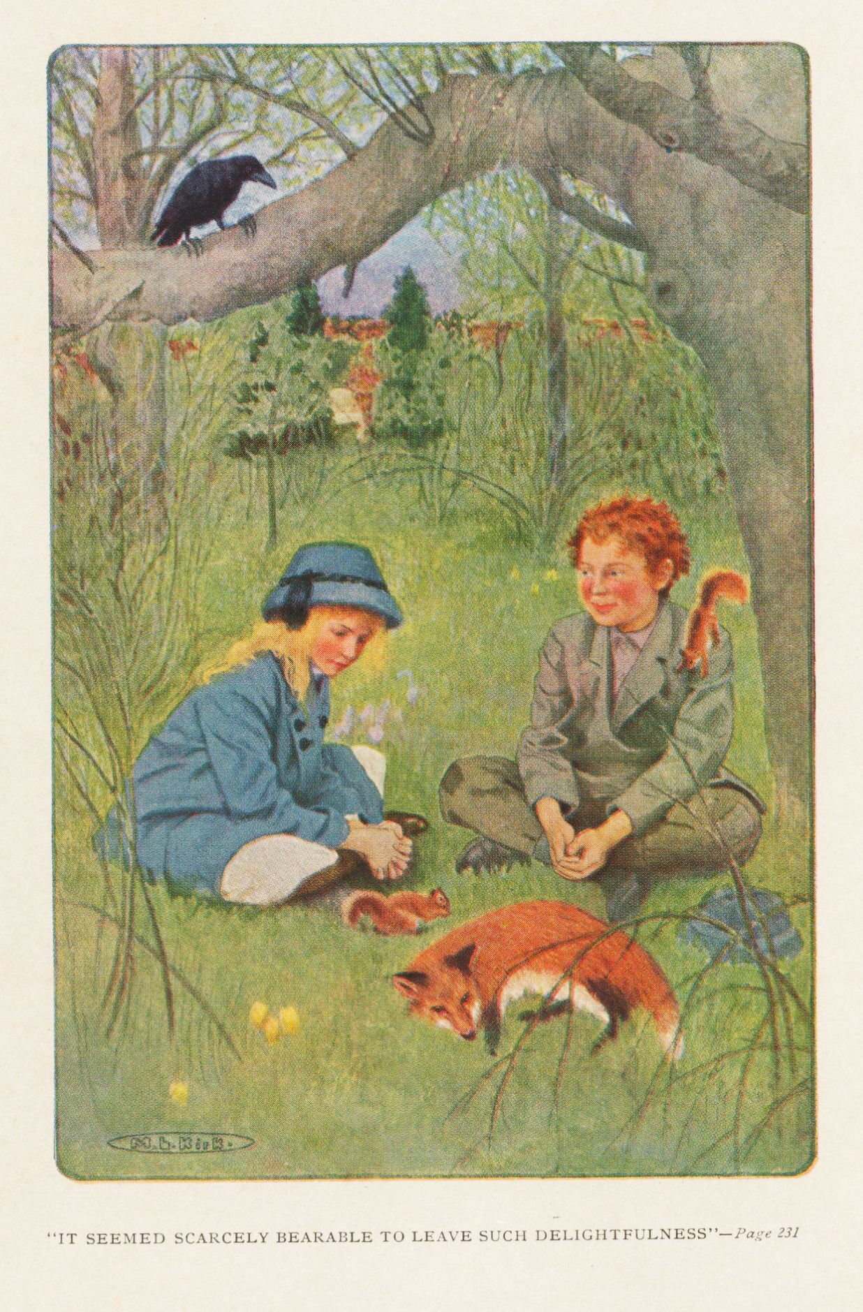 Frontispiece: The Secret Garden by Frances Hodgson Burnett (1849-1924). Publisher: New York: F.A. Stokes, 1911. *AC85 B9345 911s, Houghton Library, Harvard University